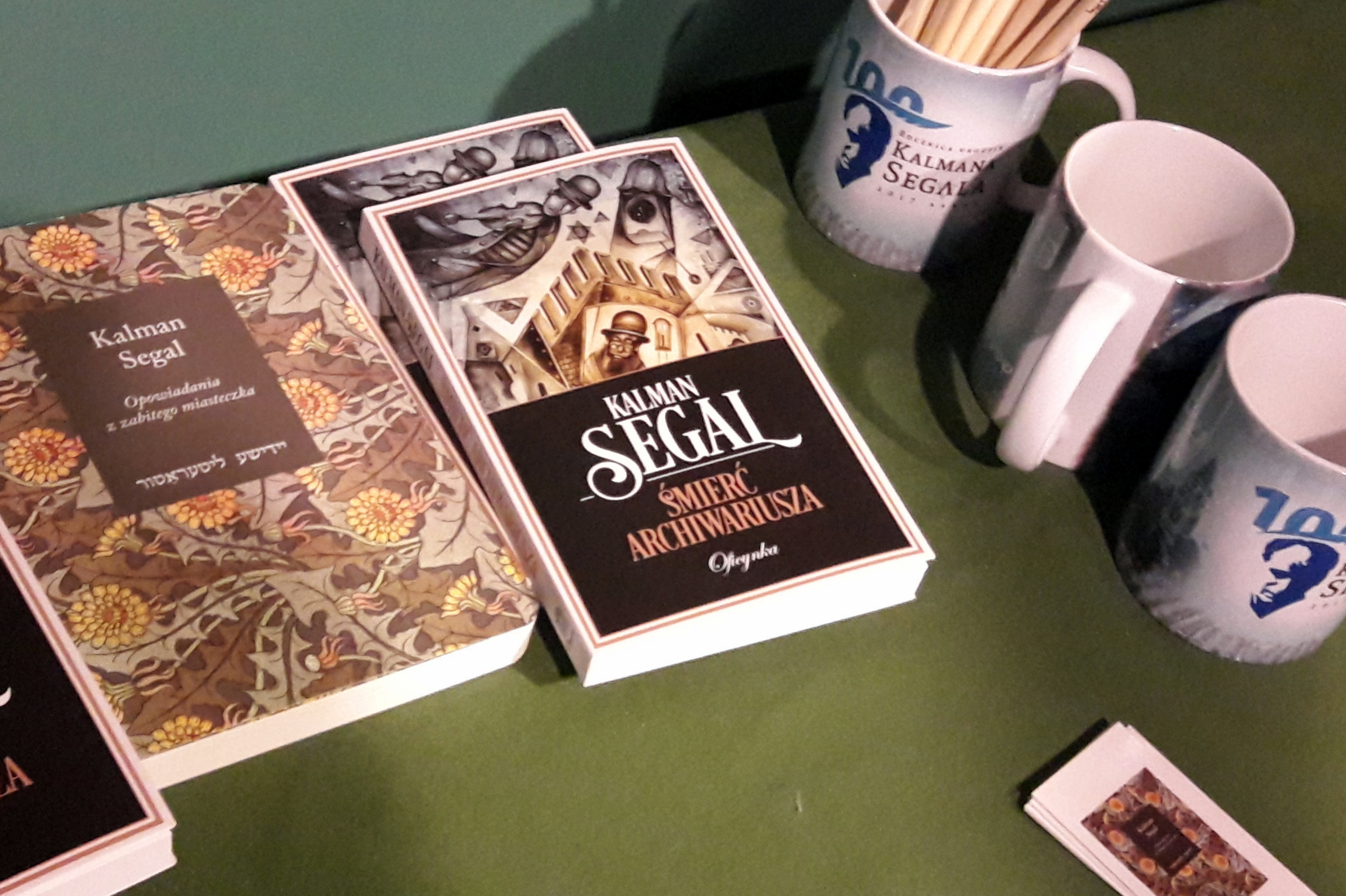 Kalman Segal zum 100. Geburtstag